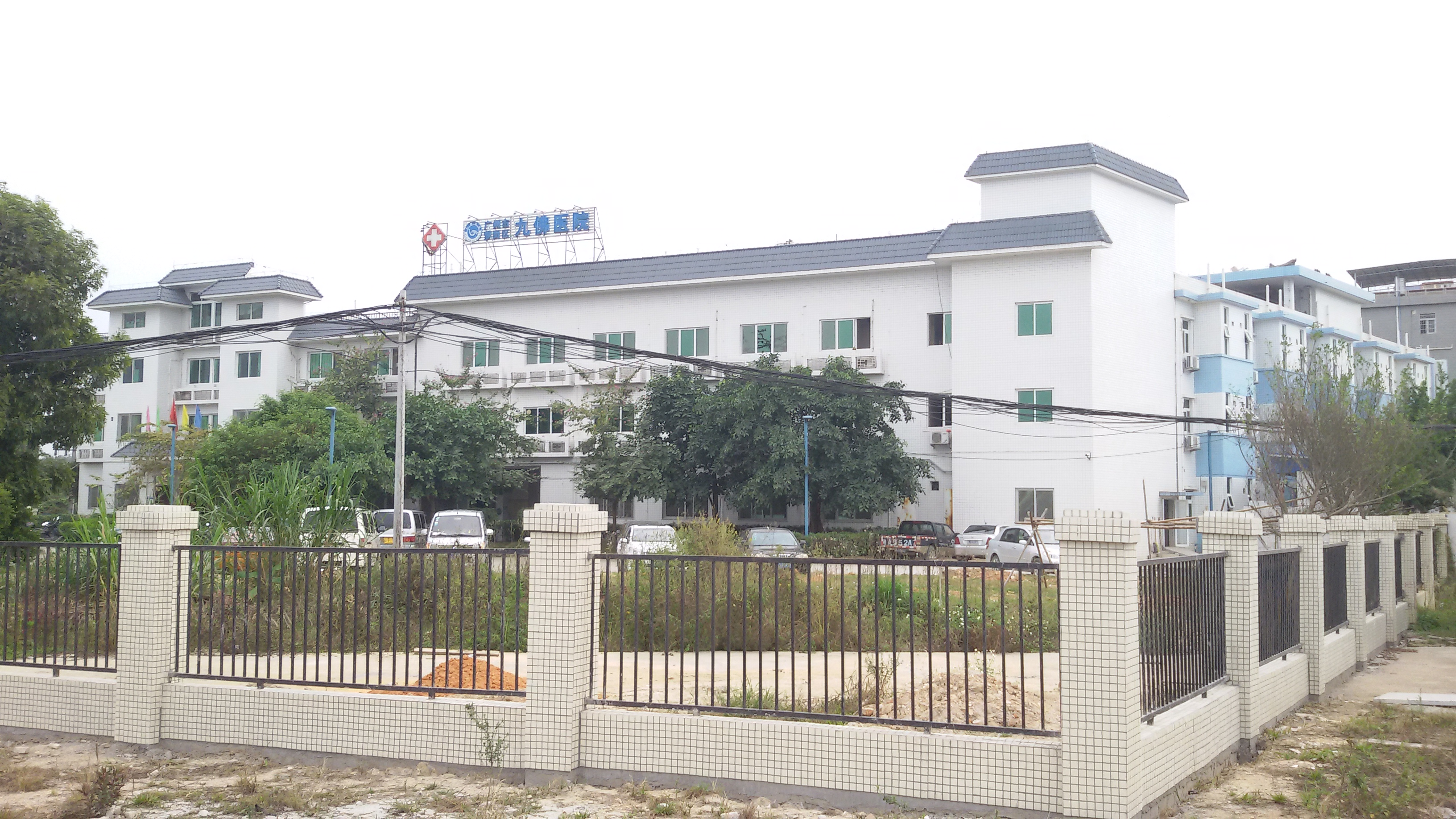 Guangzhou City Luogang District Jiufo Hospital (Cantonese: Gau Fat Ji Jyun)